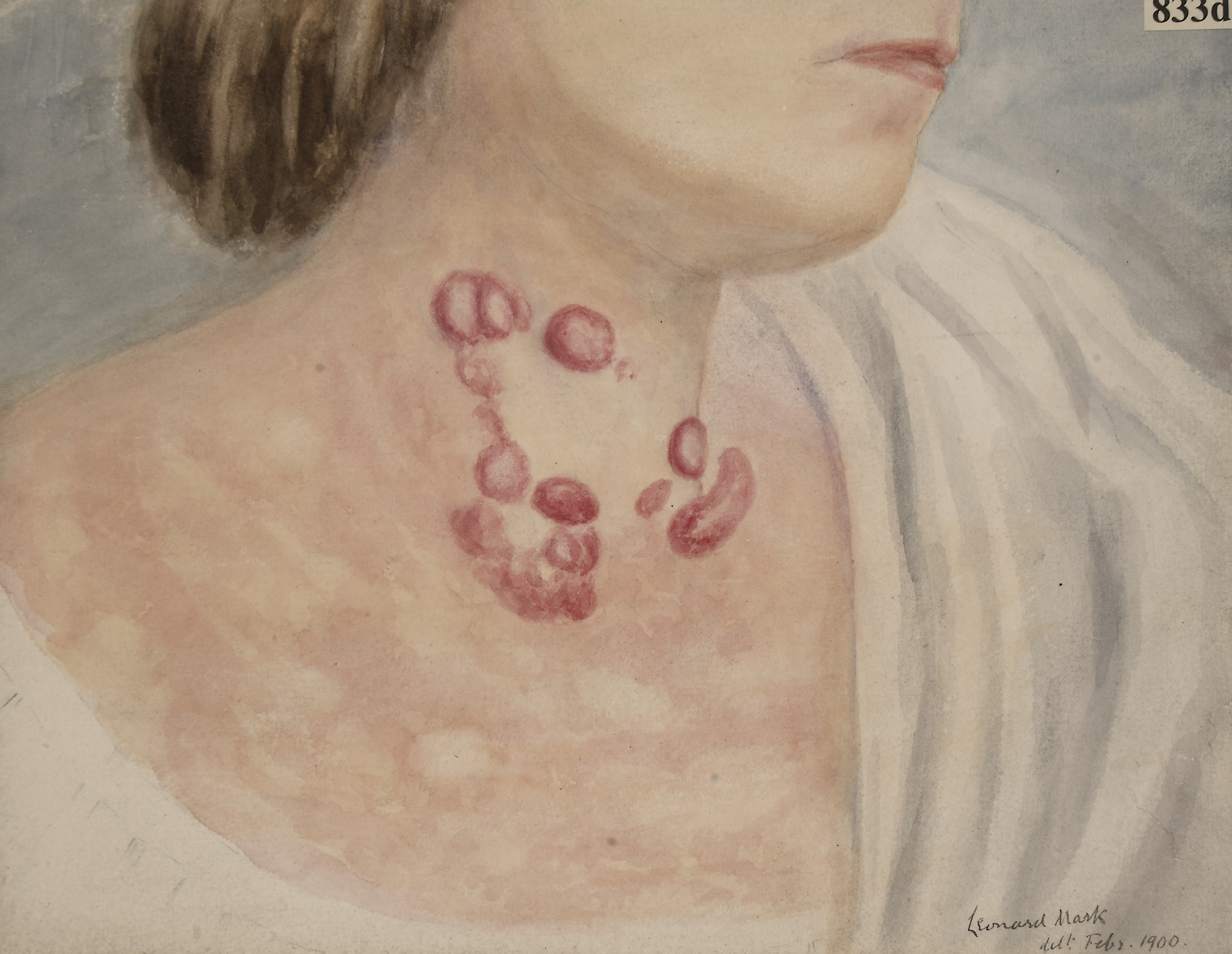 Watercolour drawing of the neck of a woman suffering from mycosis fungoides. There is a diffuse patchy erythema over the neck and chest, with a group of round and oval, smooth, red elevations. Medical Photographic Library Keywords: Mark, Leonard Portal